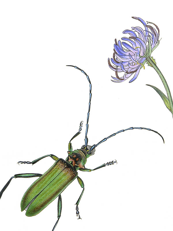 British Entomology by John Curtis. Plate 738 (detail). Sourced from a proof plate, showing the use of gold leaf high-lighting.